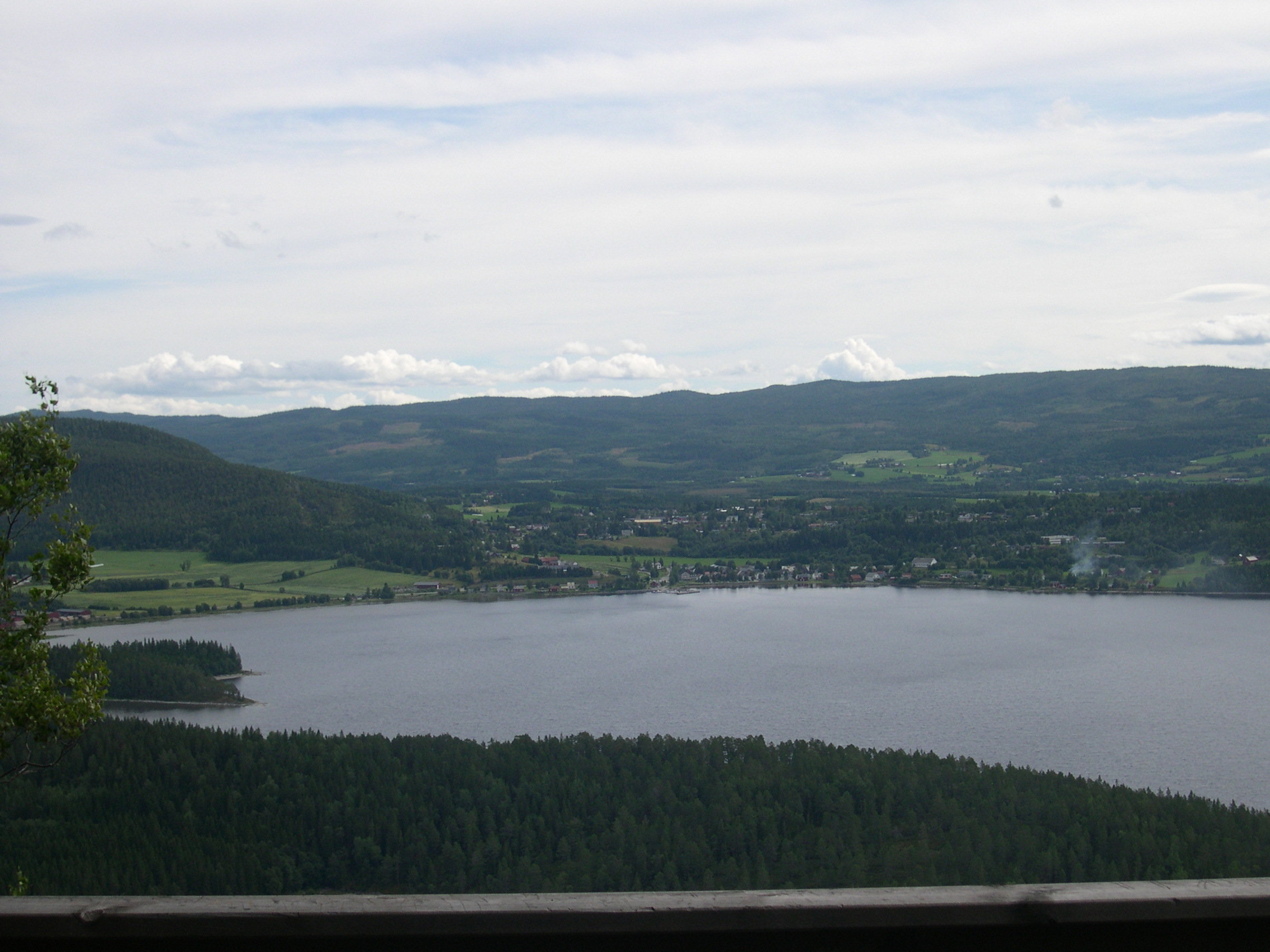 Lake Snåsavatnet, Snåsa, Norway seen from Roaldsteinen towards the central parts of Snåsa and the old village Viosen, in the east